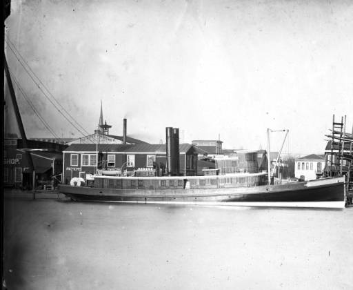 FDNY fireboat Zophar Mills